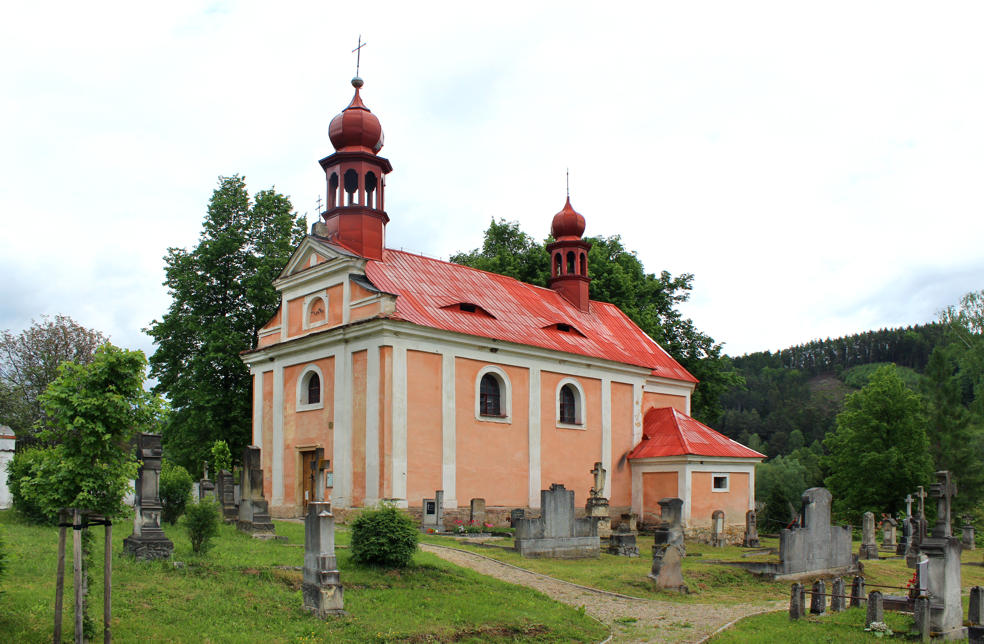 Church of St. Jacob in Medonosy, Czech Republic